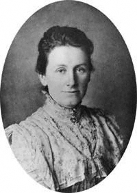 Portrait of Margaret Ethel Gladstone MacDonald (1870–1911)